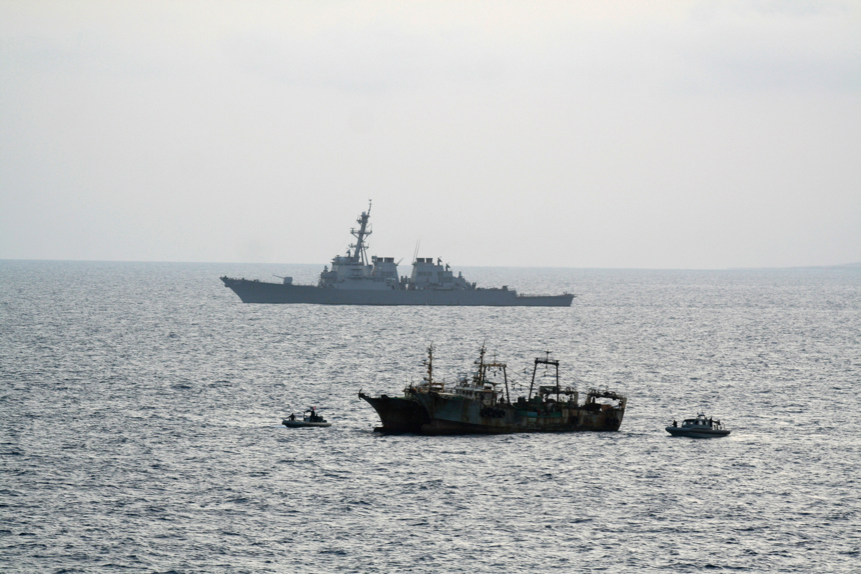 INDIAN OCEAN (Nov. 5, 2007) - Members of a U.S. Navy rescue and assistance team provide humanitarian and medical assistance to the crew of the Taiwanese-flagged fishing trawler Ching Fong Hwa. The vessel had been seized by pirates off the coast of Somalia in early May 2007 and was released Nov. 5, 2007, with U.S. Navy assistance. U.S. Navy photo (RELEASED)